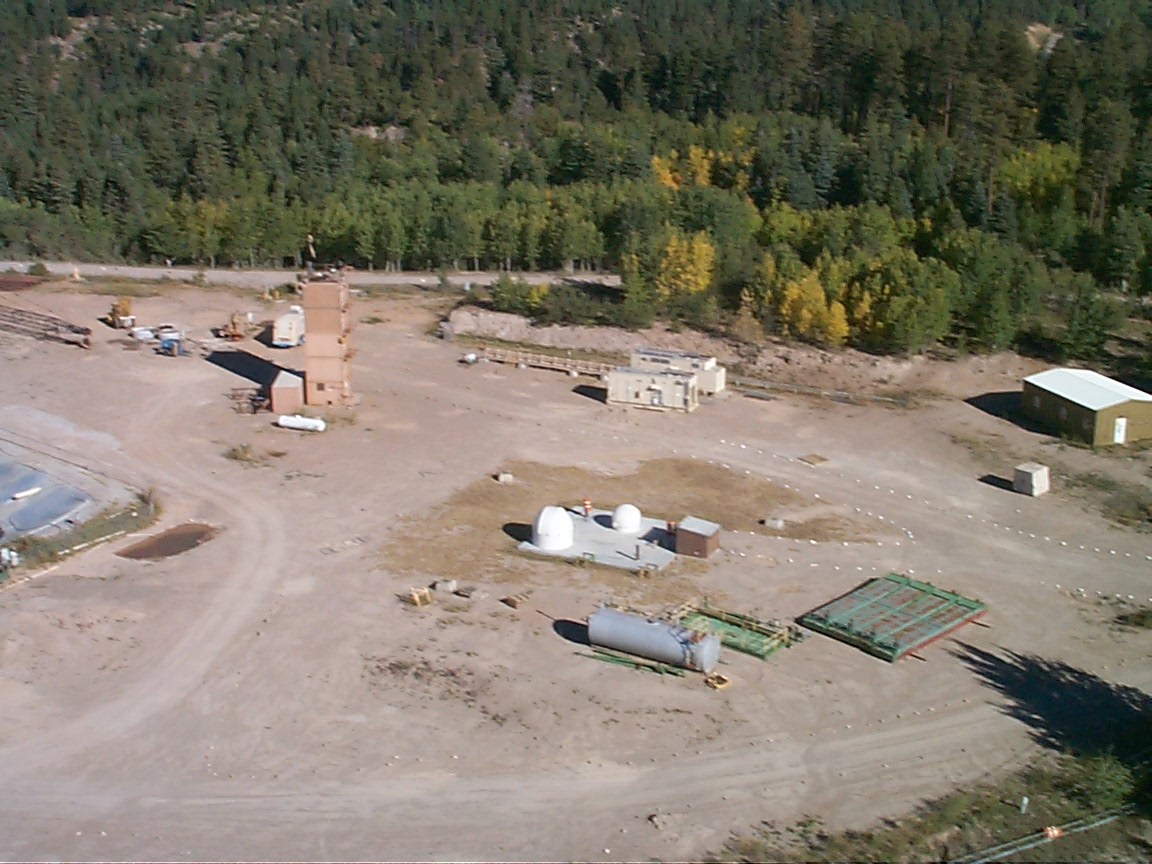 Fenton Hill Observatory in 1998. Jemez Mountains, NM, USA. Part of Los Alamos National Lab.